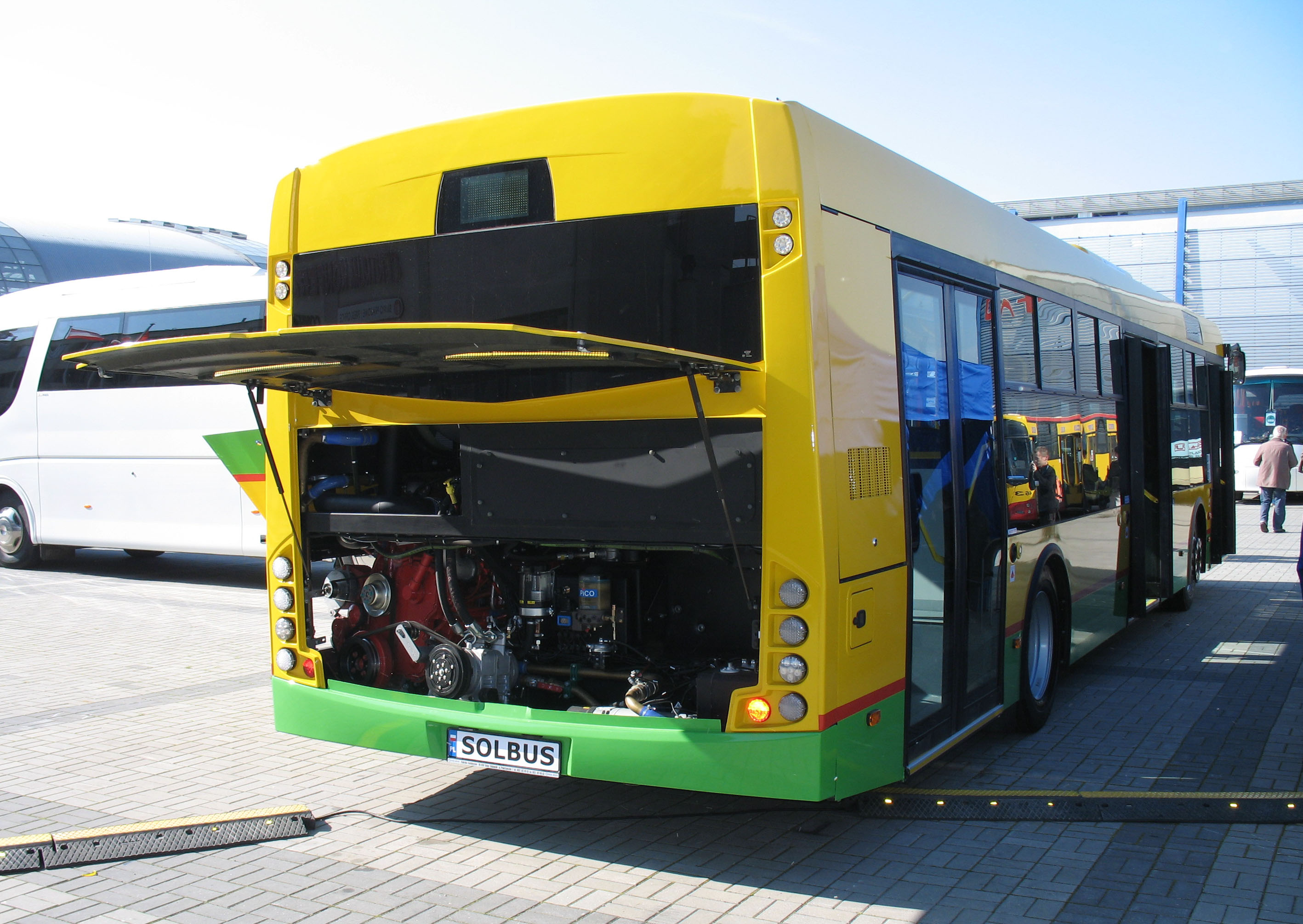 Solbus Solcity 12 LNG city bus (#277) in Kielce, Poland. Built 2010, MPK Wałbrzych operator. Cummins ISLGeEV 320 LNG engine.